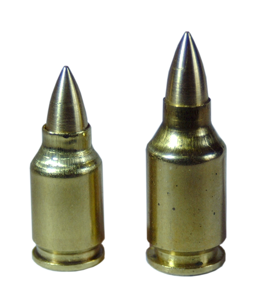 .224 BOZ 9mm compared to original 10mm case